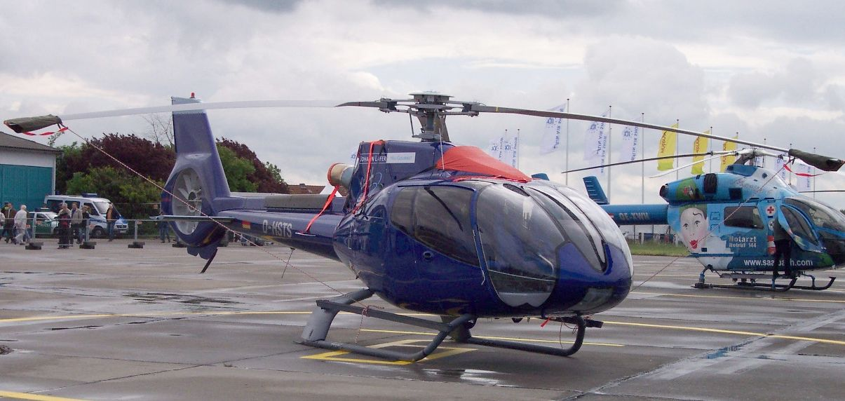 Eurocopter EC 130 at ILA 2006